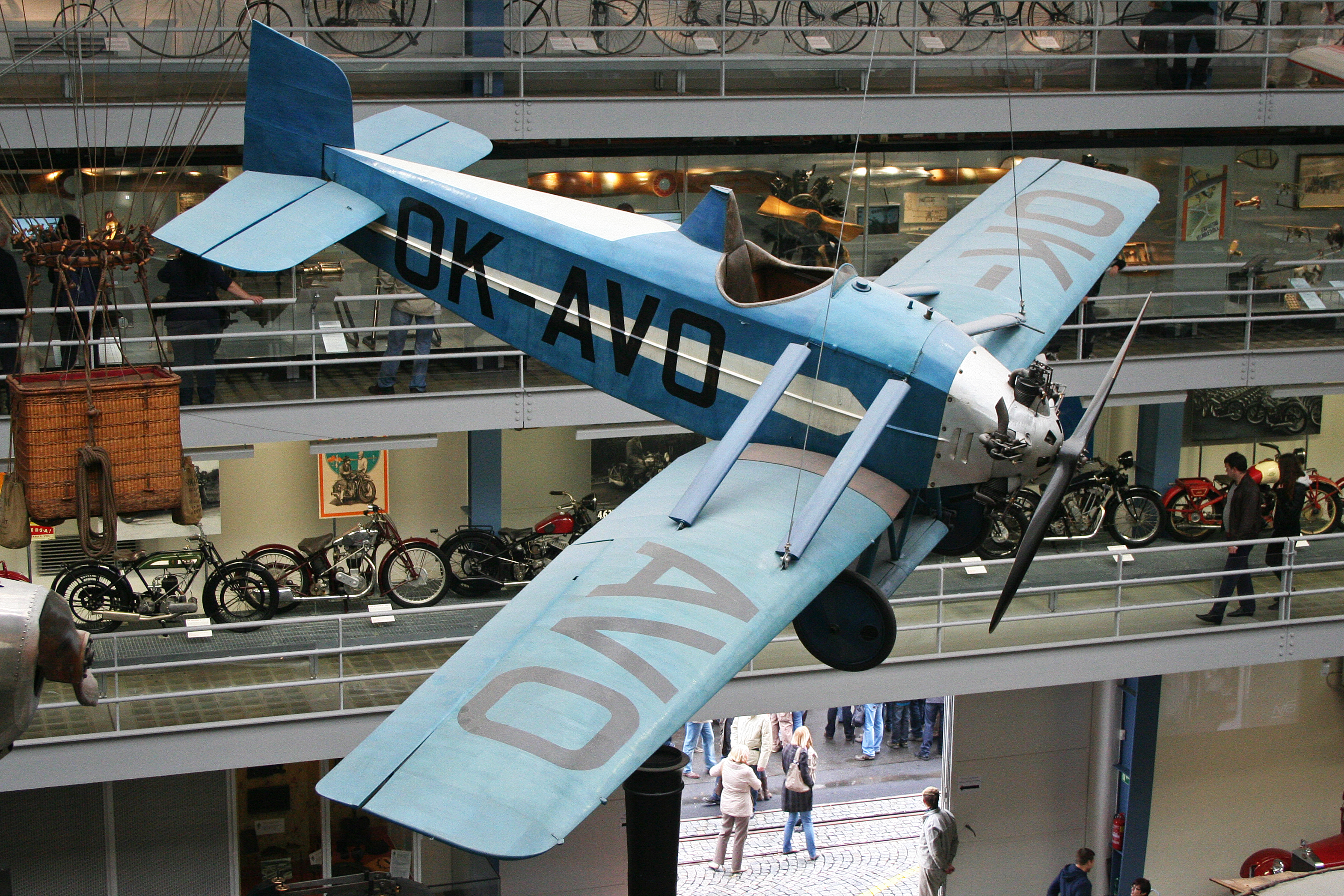 Built in 1924 as an aerobatic trainer for the Czechoslovakian Air Force, before passing to local aero clubs. Military serial B.10-14. msn 14. National Technical Museum. Prague, Czech Republic. 07-10-2012